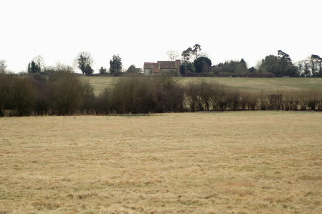 View south from the footpath. In the distance is North Baddesley Church SU4020